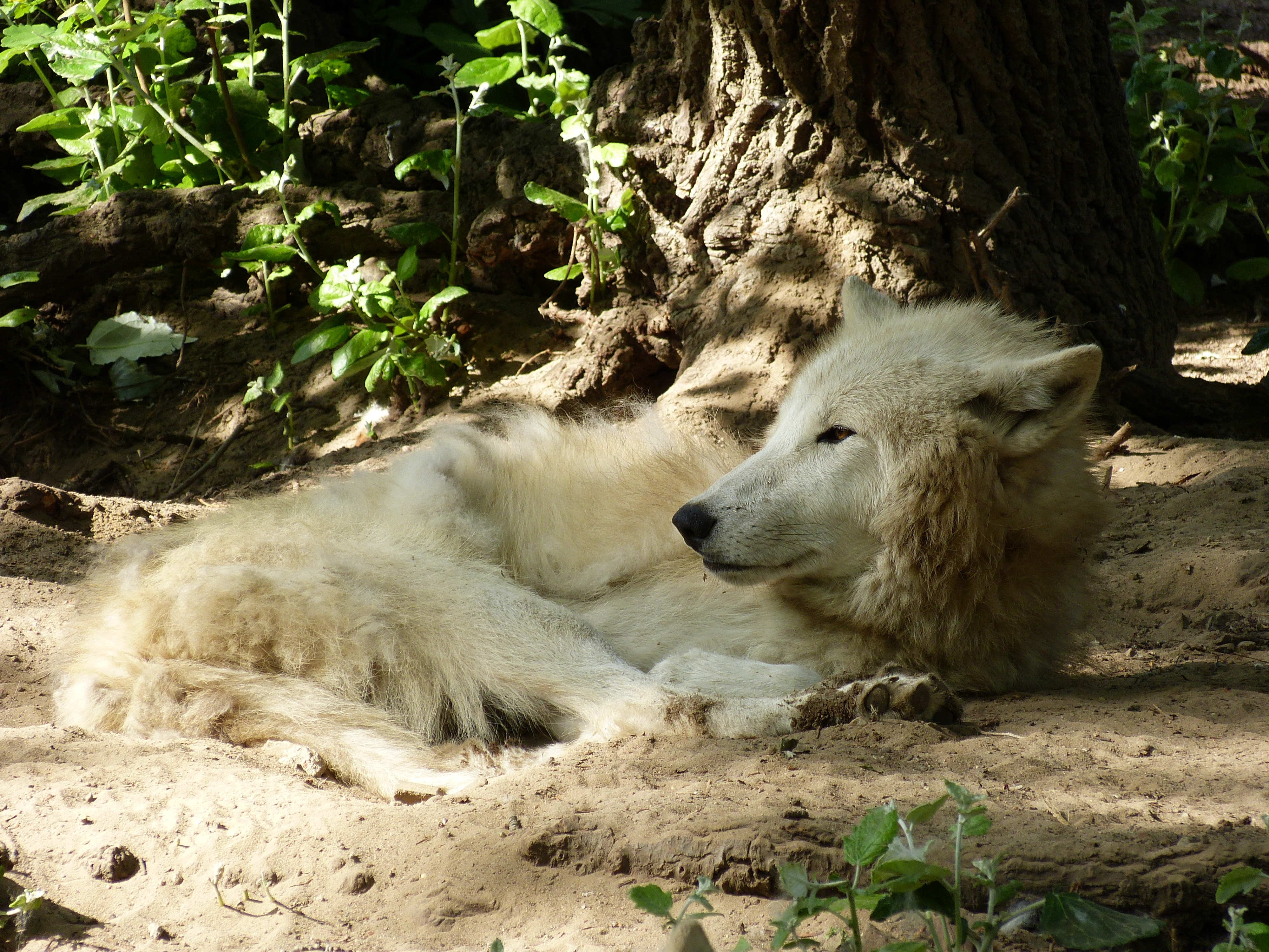 Hudson Bay wolf (Canis lupus hudsonicus) in Berlin Zoological Garden